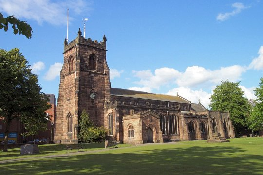 St Luke's parish church , Cannock, Staffordshire, seen from the southwest